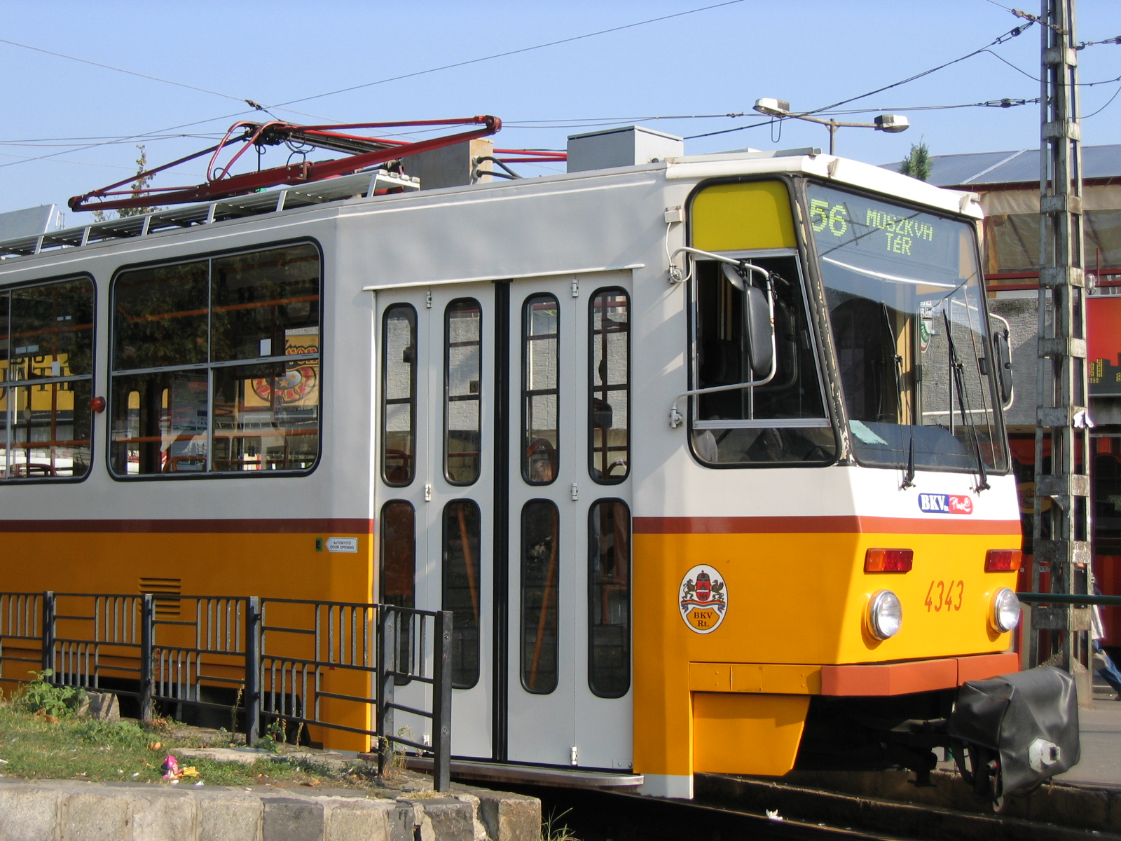 A tram in Budapest, Hungary